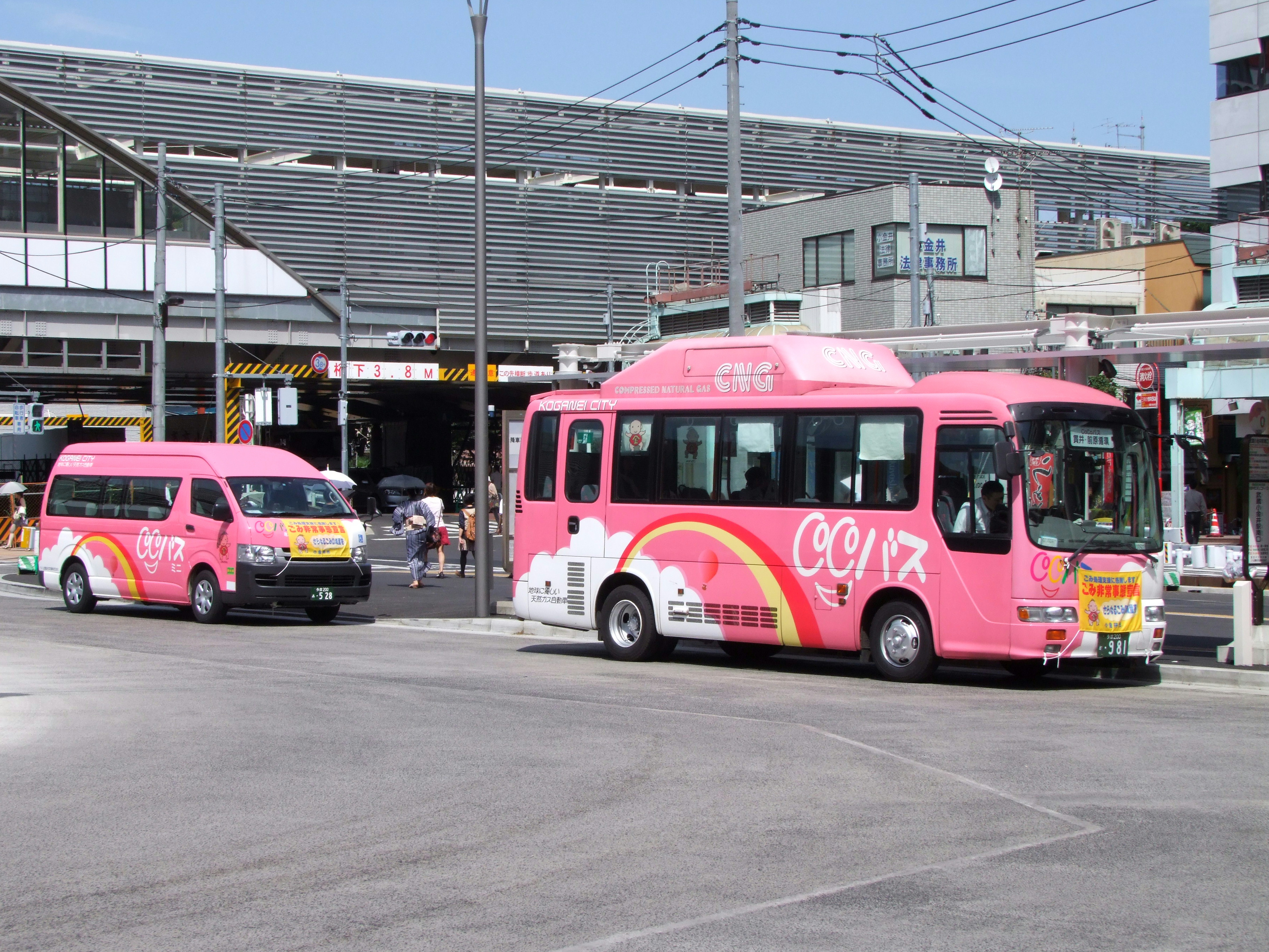 Community bus of Koganei, Tokyo, CoCoBus (right,Hino Liesse) & CoCoBus Mini (left,Toyota Hiace), at Musashi-Koganei Station south side.